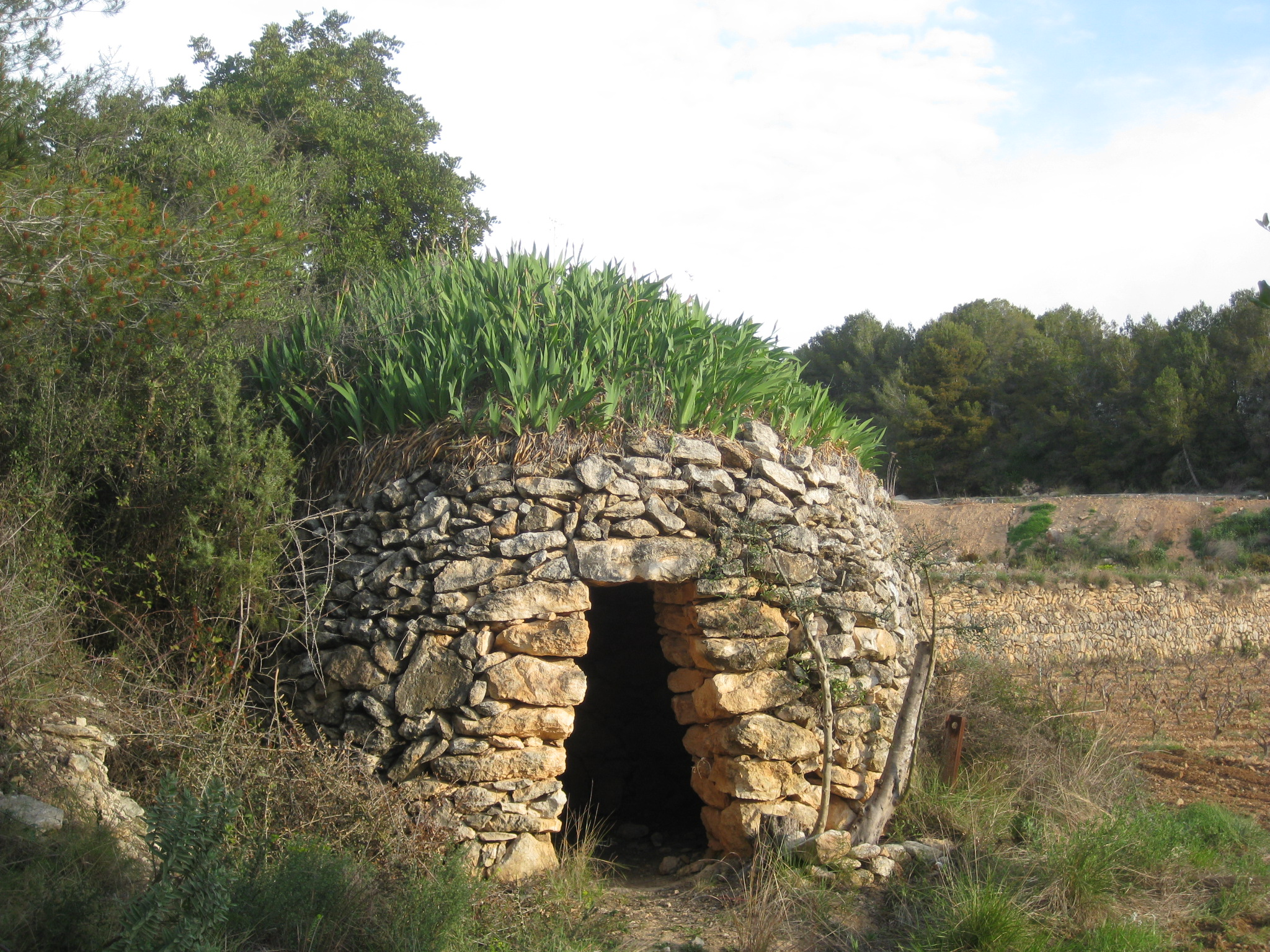 Dry stone hut in a vineyard in Sant Pere de Ribes, Garraf (Catalonia)